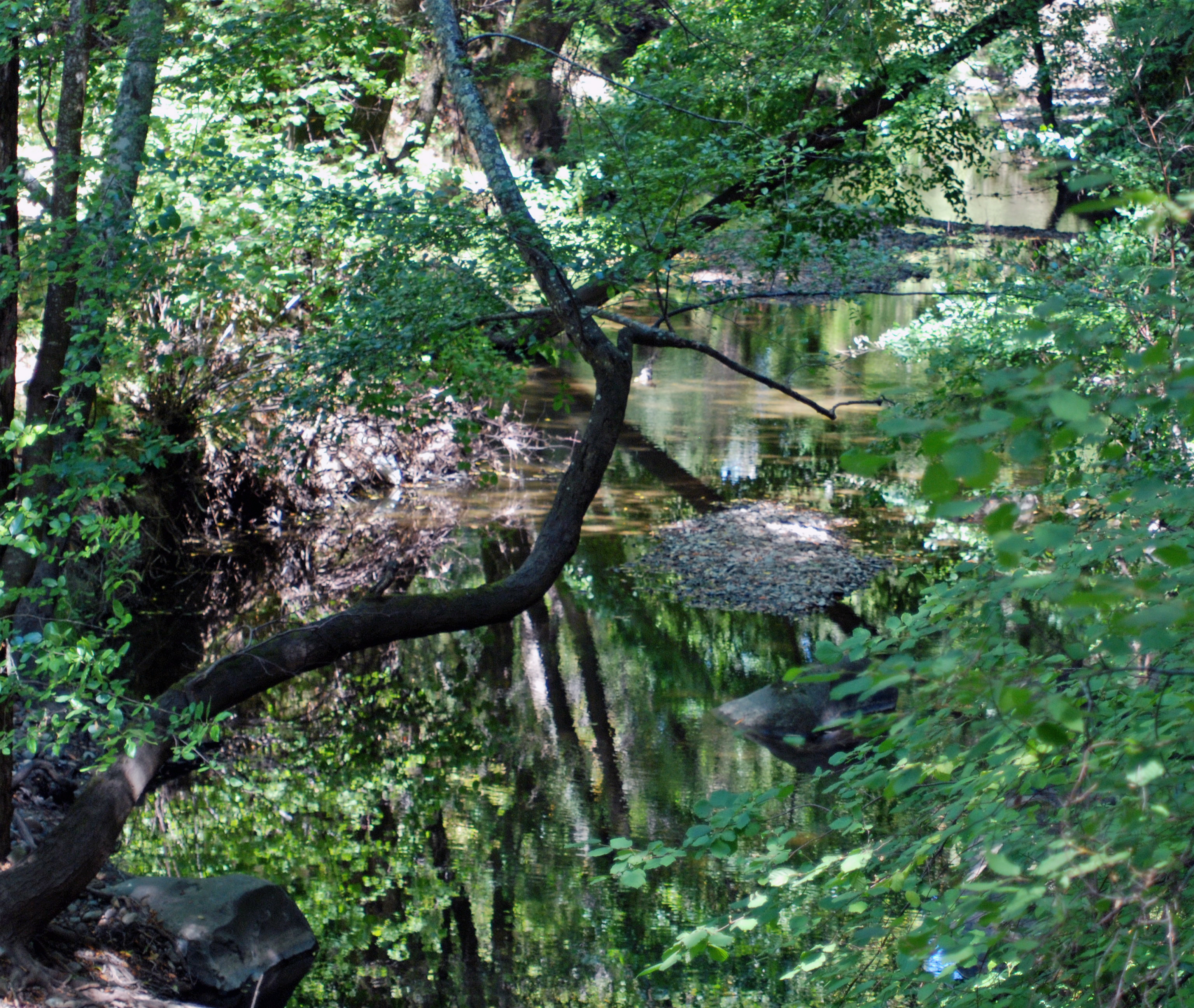 Corte Madera Creek (San Francisquito Creek) in Jasper Ridge Biological Preserve just below Searsville Dam, Portola Valley, California